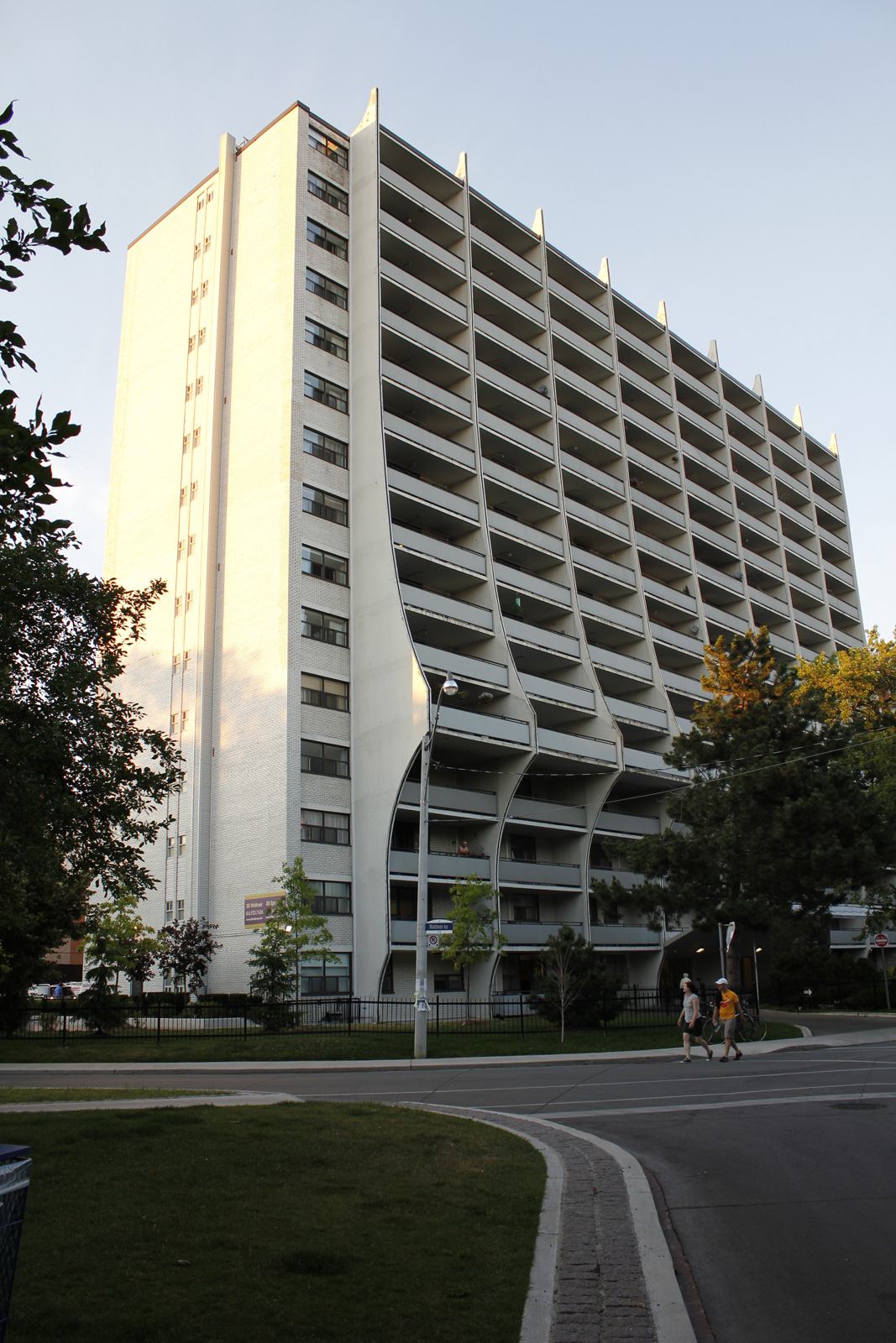 Architect Uno Prii's The Vincennes at 35 Walmer Road (1966) as seen from Walmer Circle in Toronto, Canada. Photo taken on 3 July 2011 at 8:40PM. Attribute to Arthur Rozumek.